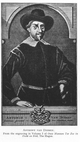 Portrait of Antonio van Diemen (1593-1645). Engraving. Dimensions and location unknown.